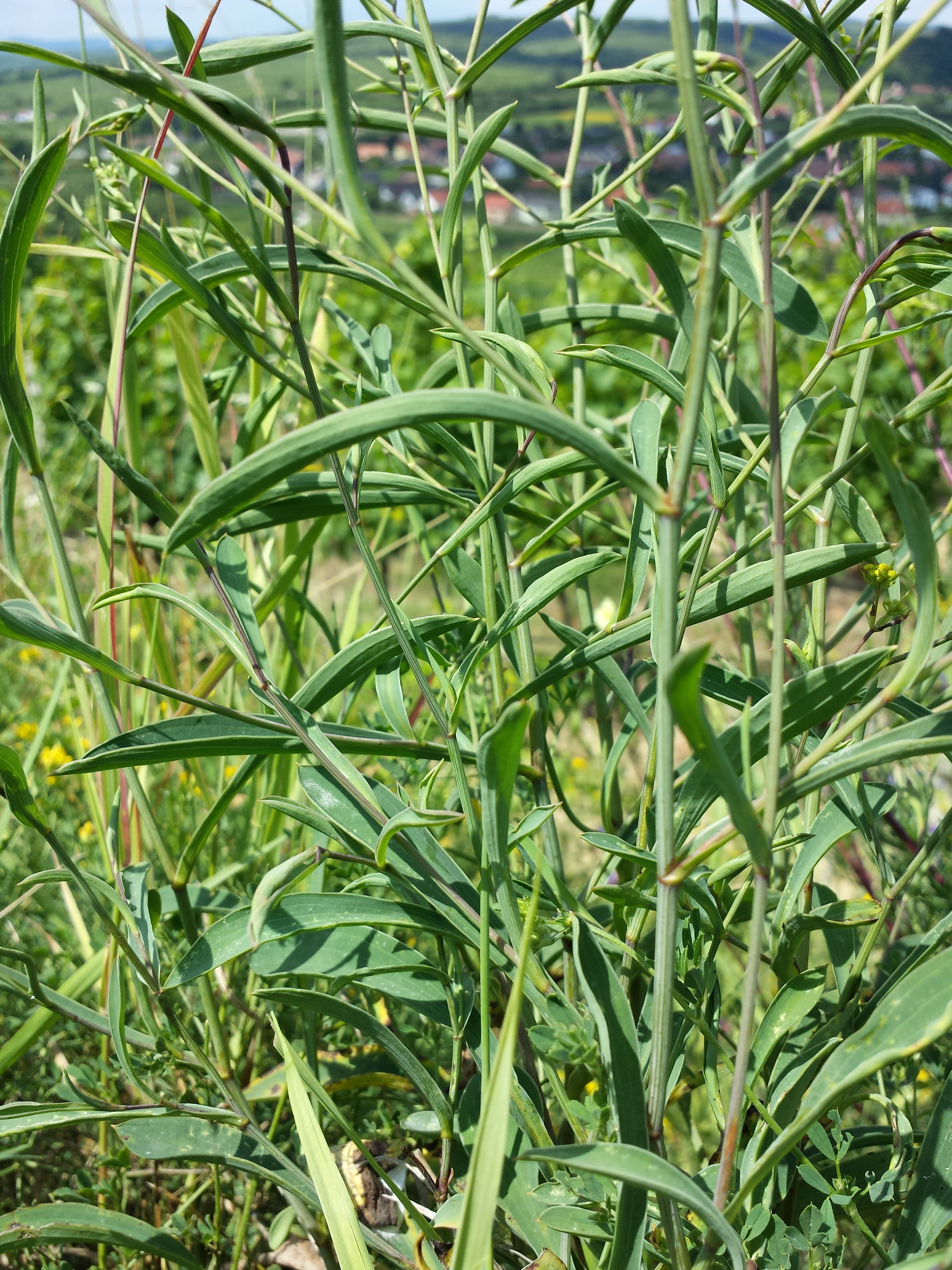 Stipes with leaves Taxon: Bupleurum falcatum (sensu Fischer et al. EfÖLS 2008 ISBN 978-3-85474-187-9) Location: Heiligenstein near Zöbing, district Krems, Lower Austria - ca. 260 m a.s.l. Habitat: rocky dry grassland / border of a vineyard